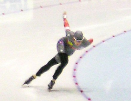 Kristina Groves (CAN) at a World Cup in Thialf (Heerenveen, The Netherlands)